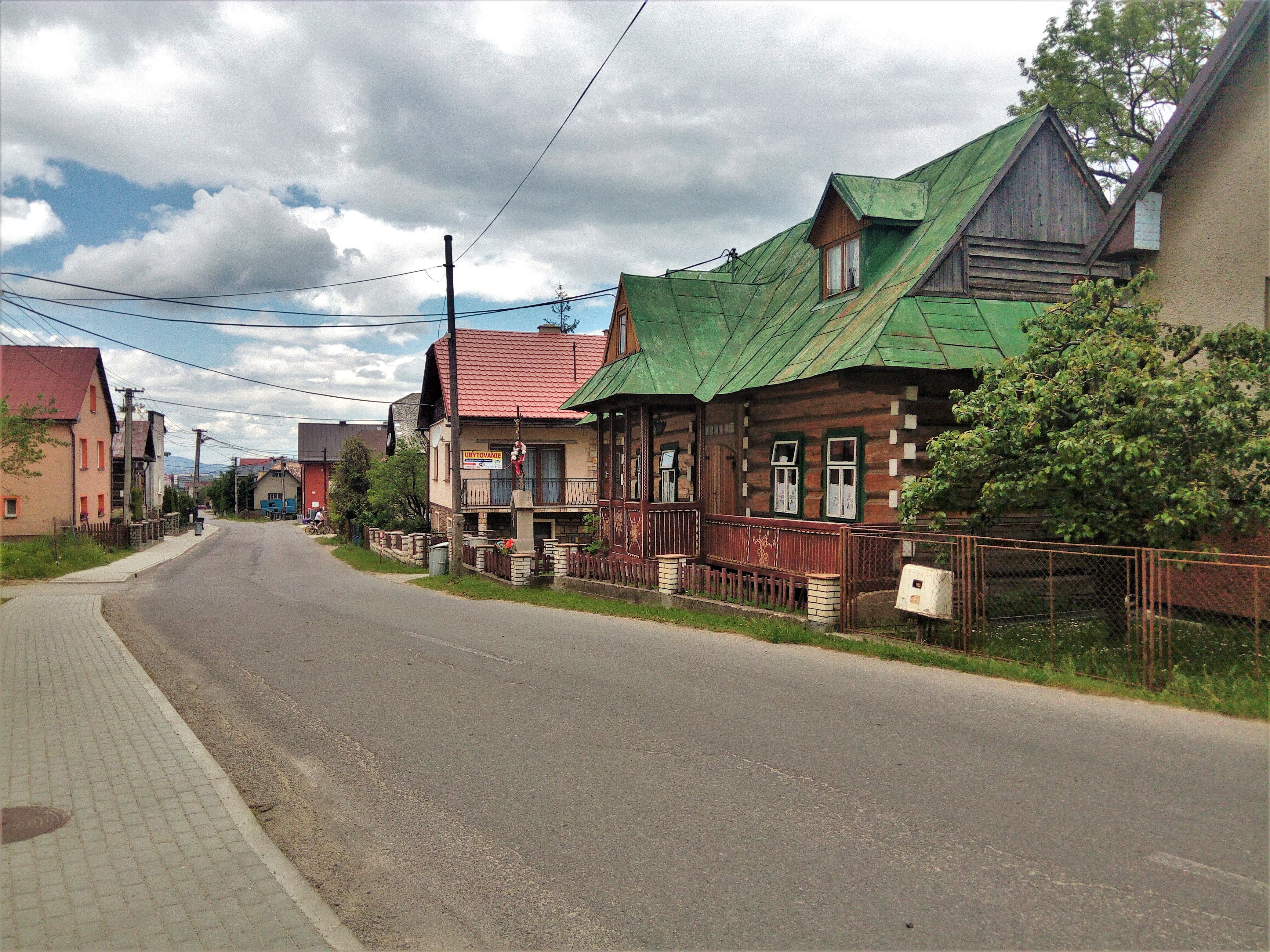 Main street of the village Suchá Hora/Sucha Góra in the Slovak region of Orava.